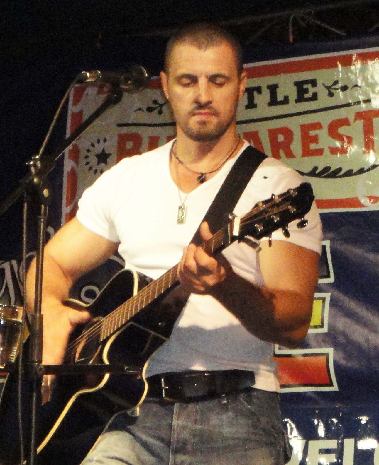 Moldovan singer Pavel Stratan performing on 25 August 2013 at Taste of Romania in Chicago, Illinois.